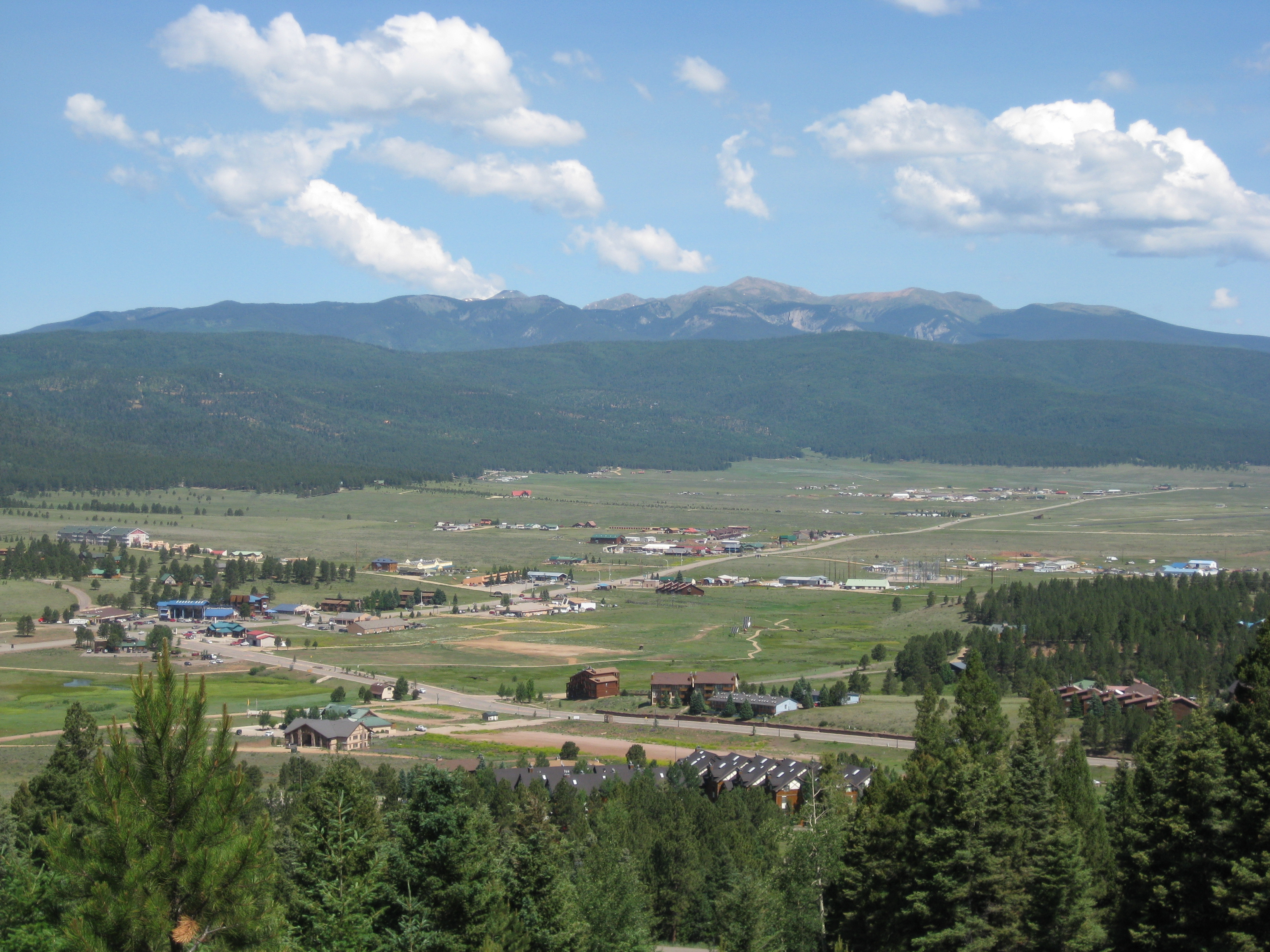 Town of Angel Fire, New Mexico